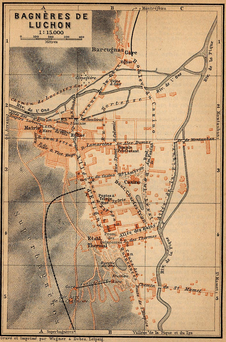 Map of France. 1914. Bagneres de Luchon.